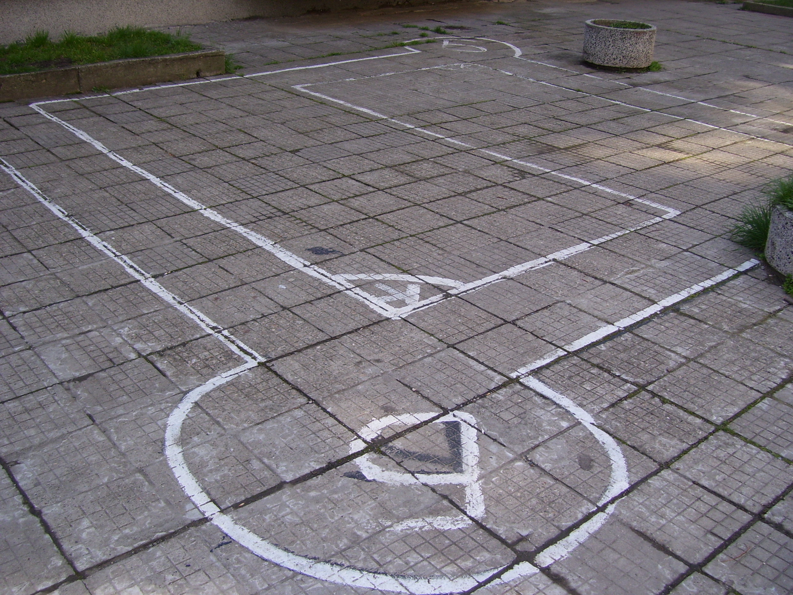 Drawing for the game of kar from Hipodruma neighbourhood, Sofia, Bulgaria